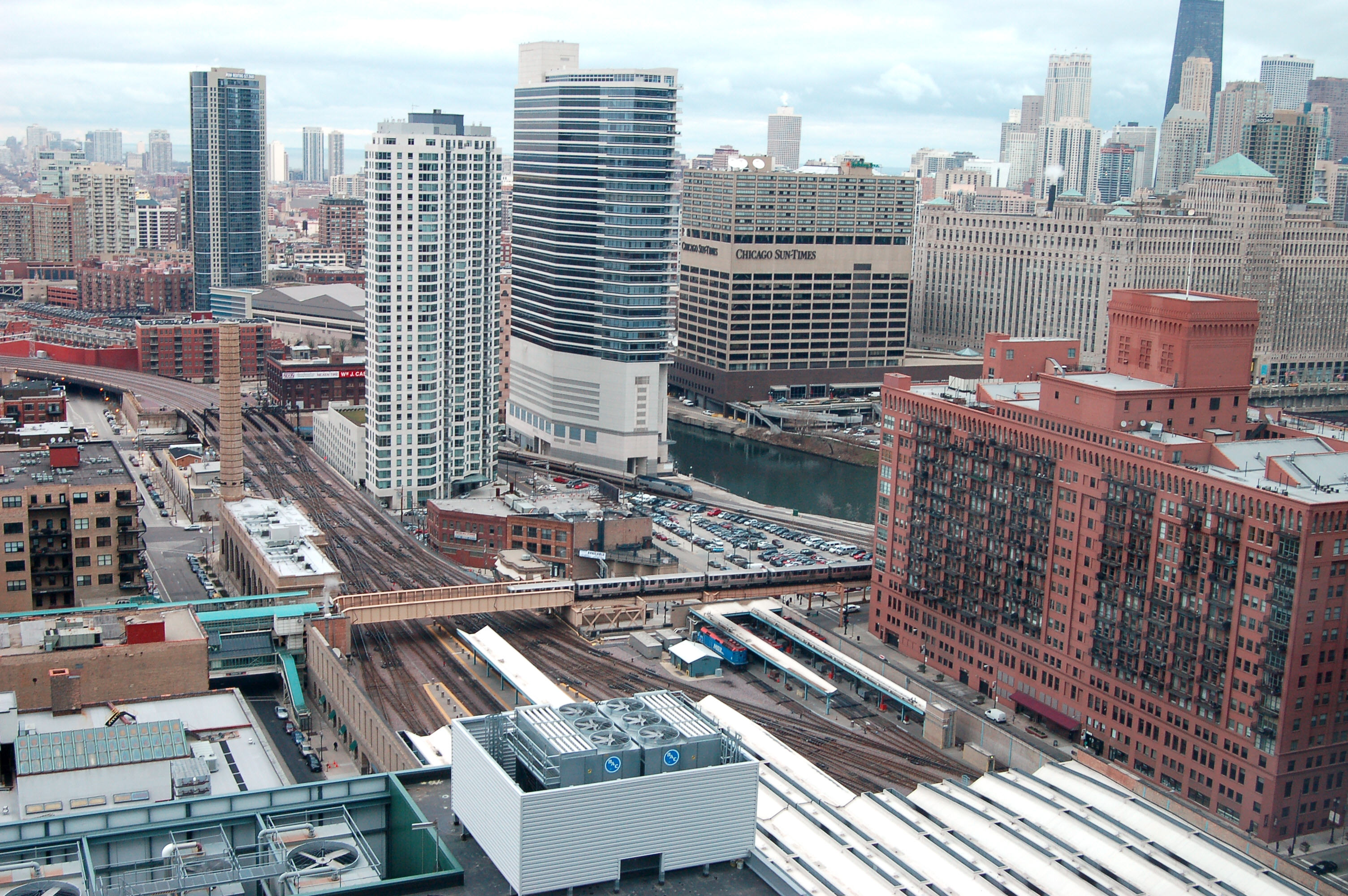 Ogilvie Transportation Center - Taken From 540 West Madison Street